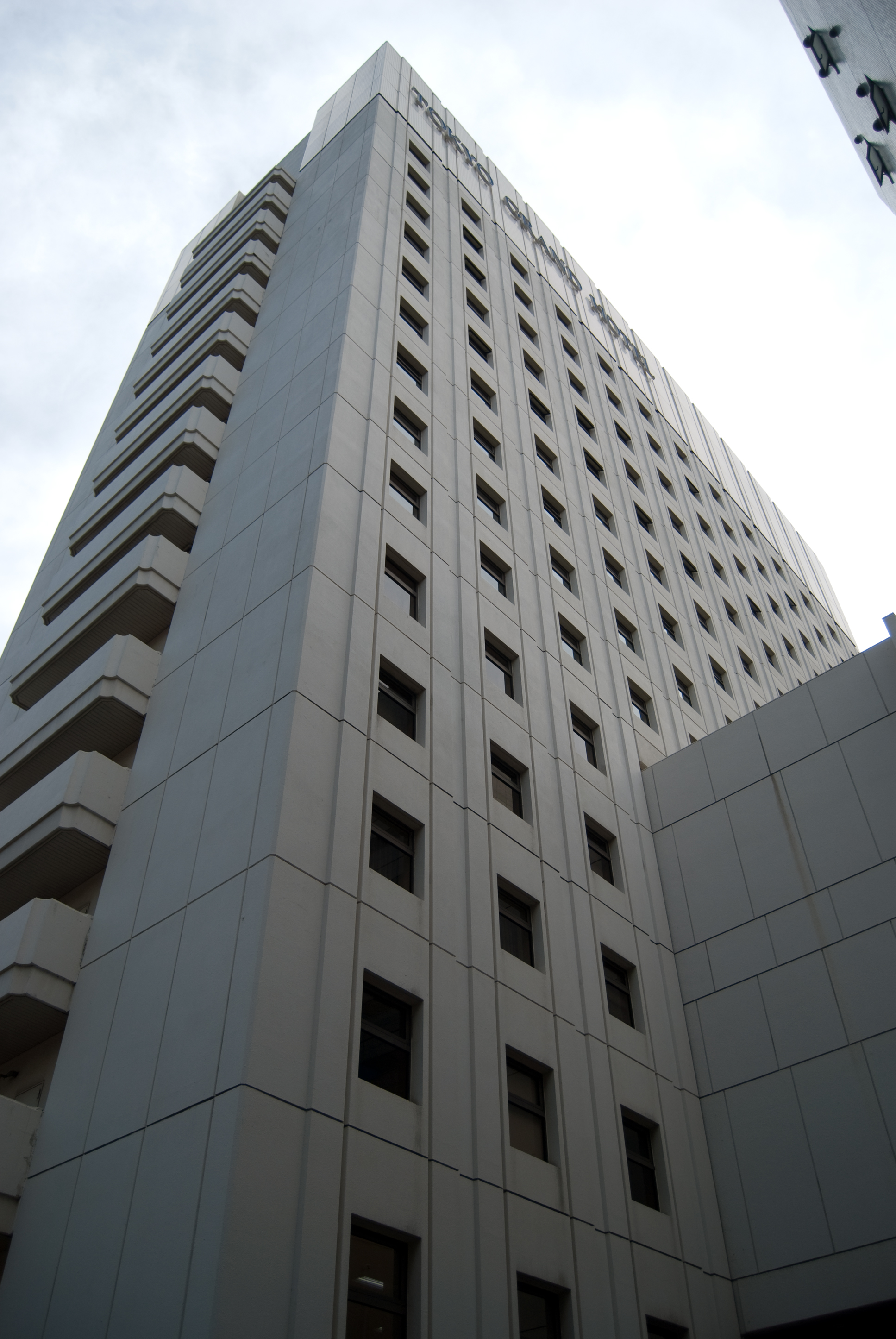 SotoZen Headquarters and Tokyo Grand Hotel in Tokyo Minato-ku